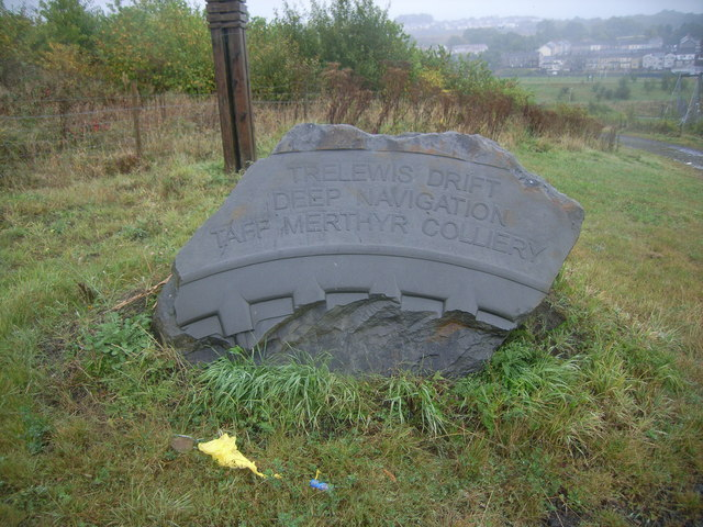 Trelewis Drift Deep Navigation Taff Merthyr Colliery. This is a commemorative stone at the entrance to what was the old mine at Trelewis.